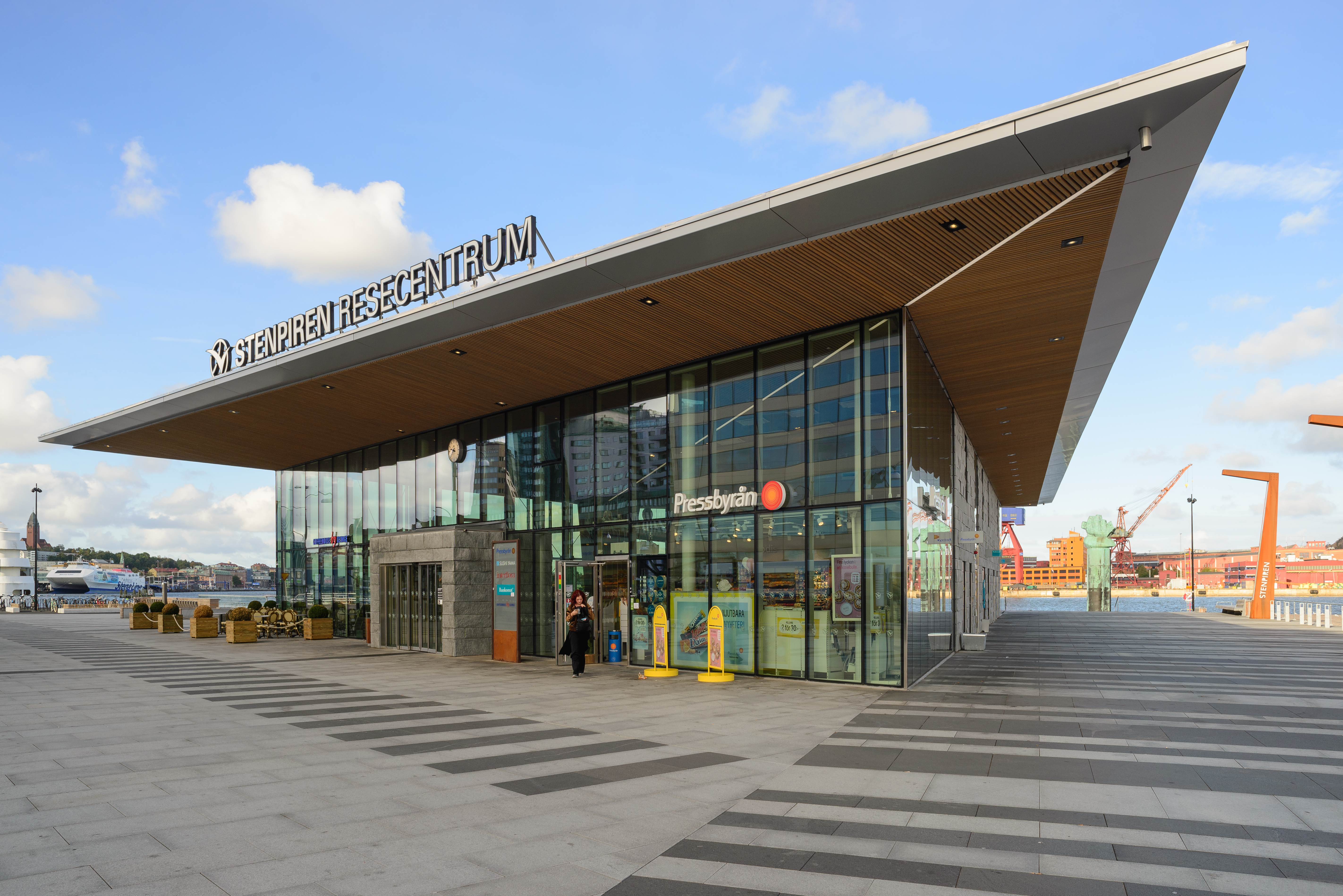 Stenpiren resecentrum (commuter hub) in Gothenburg, Sweden.